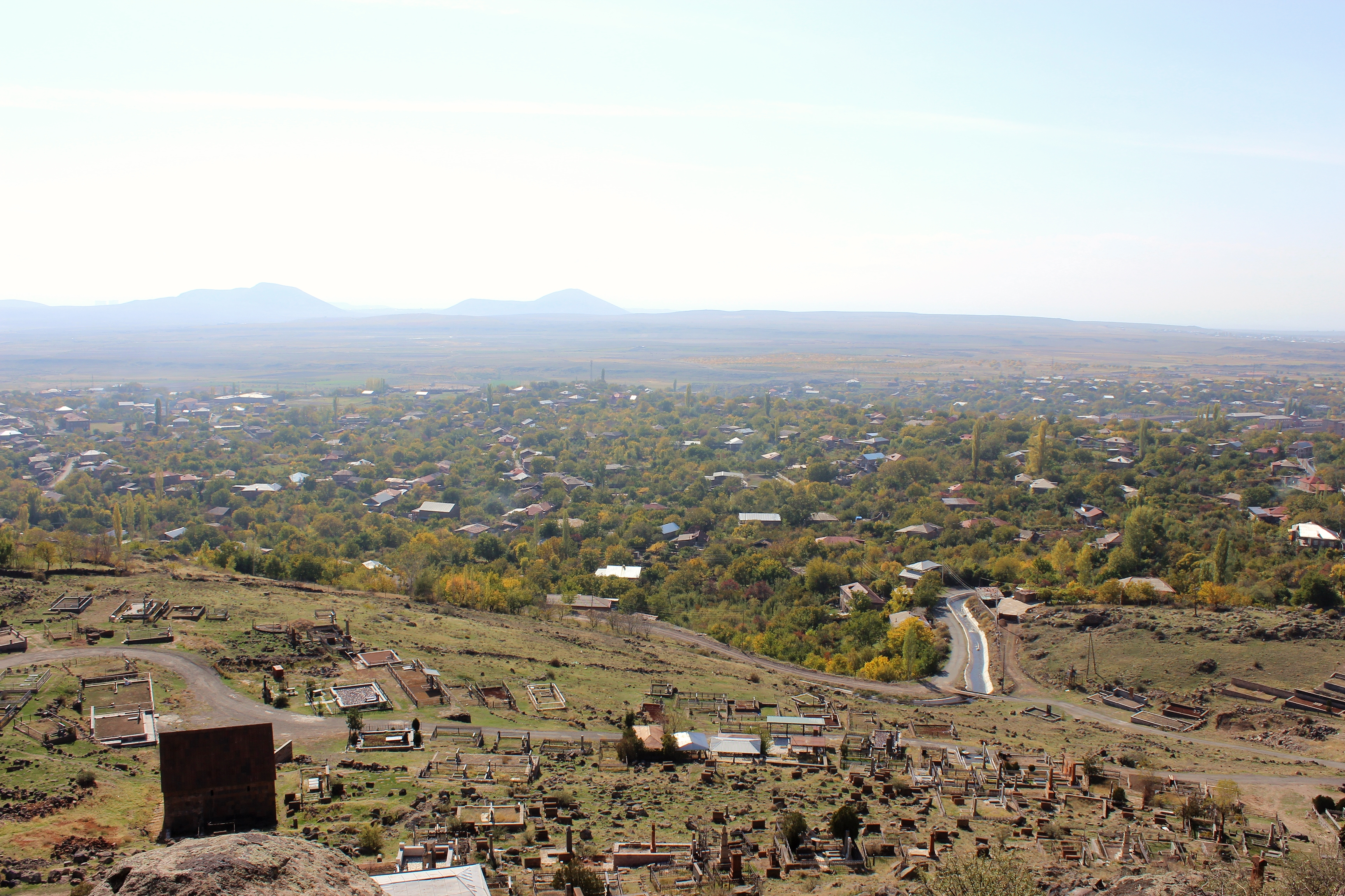 Kosh, Aragatsotn Province, Armenia, as seen from Kosh Berd